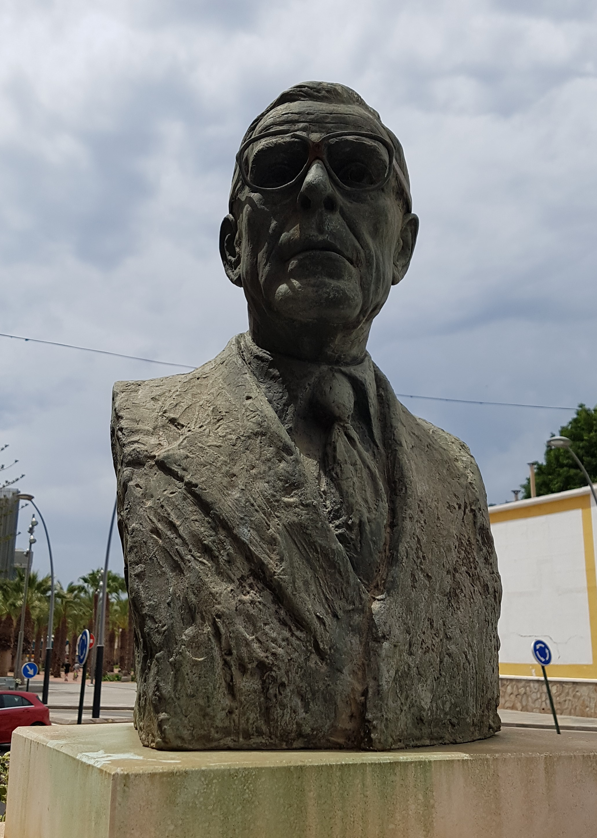 Bronze bust erected in 2000 on Calle Real in Cartagena (Spain) in tribute to the composer Gregorio García Segura, work of the sculptor Manuel Ardil Pagán.